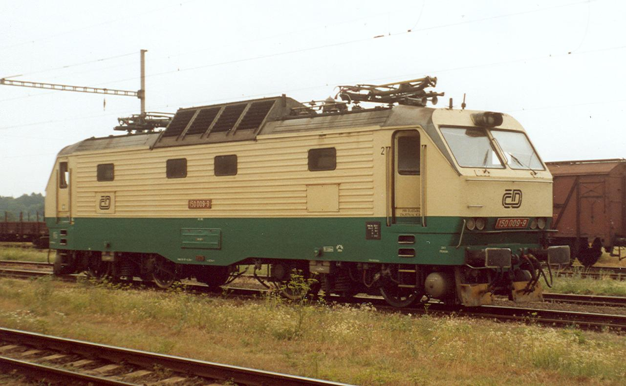 Electric locomotive class 150 of České dráhy